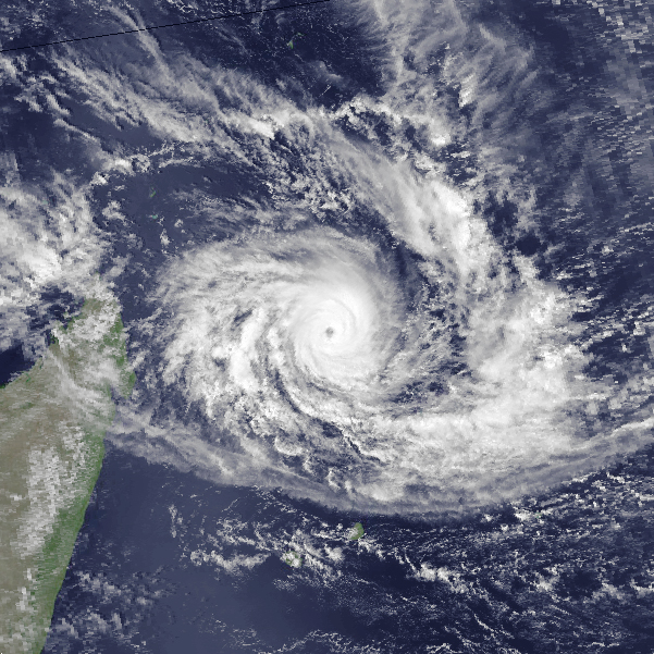 Tropical Cyclone Alibera on December 24, 1989 with winds of 105 mph and a pressure of 966 mbar.